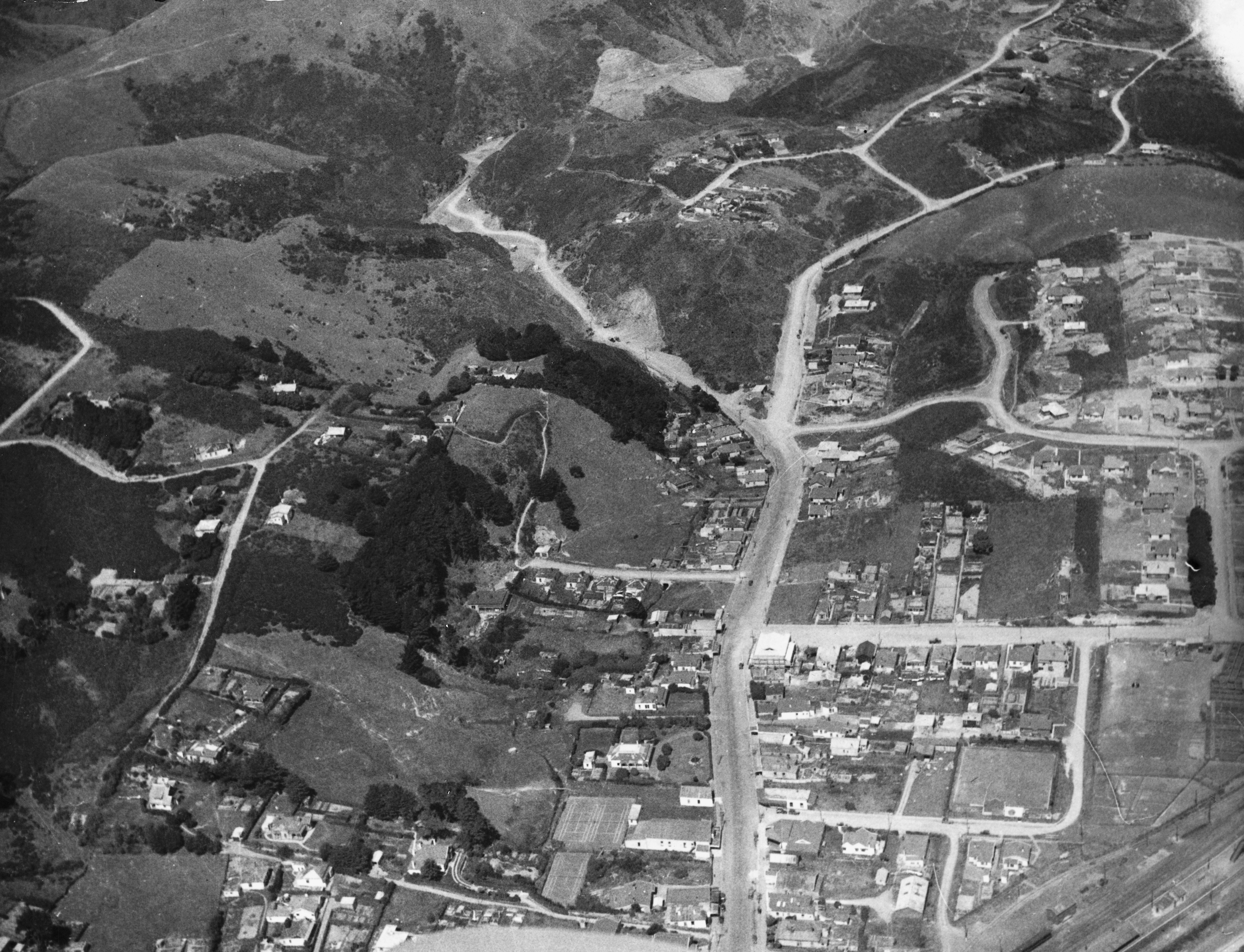 Aerial view of Johnsonville, Wellington, 1939 Reference Number: 1/4-019756-F Photographer: William Hall Raine Film negative Photographic Archive, Alexander Turnbull Library from the